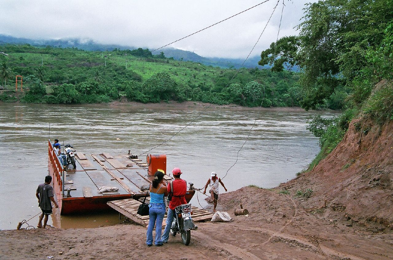 Barge over the Huallage in Peru.